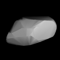 3D convex shape model of 1648 Shajna, computed using light curve inversion techniques. J. Hanuš, J. Ďurech, M. Brož, B. D. Warner (June 2011). "A study of asteroid pole-latitude distribution based on an extended set of shape models derived by the lightcurve inversion method". Astronomy and Astrophysics 530: A134. ISSN 0004-6361. arXiv